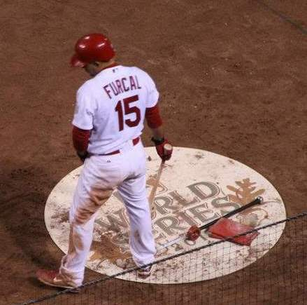 Rafael Furcal waiting to bat in Game 7 of the 2011 World Series. October 28, 2011. Busch Stadium in St. Louis. No inbedded metadata due to the cropping and editing of the original pic. It was taken from stadium seating using a Canon XTI with 70-300 zoom.